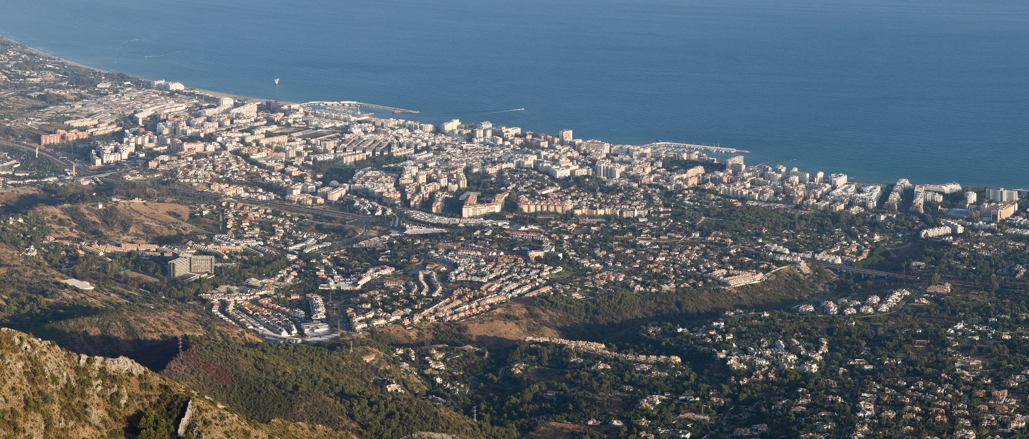 The city of Marbella in Andalucia, Spain. Viewed from the near the summit of La Concha, a large mountain just outside the city.